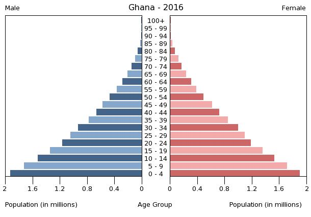 The population pyramid of Ghana illustrates the age and sex structure of population and may provide insights about political and social stability, as well as economic development. The population is distributed along the horizontal axis, with males shown on the left and females on the right. The male and female populations are broken down into 5-year age groups represented as horizontal bars along the vertical axis, with the youngest age groups at the bottom and the oldest at the top. The shape of the population pyramid gradually evolves over time based on fertility, mortality, and international migration trends.